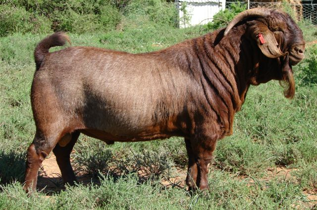 A top Kalahari Red Goat